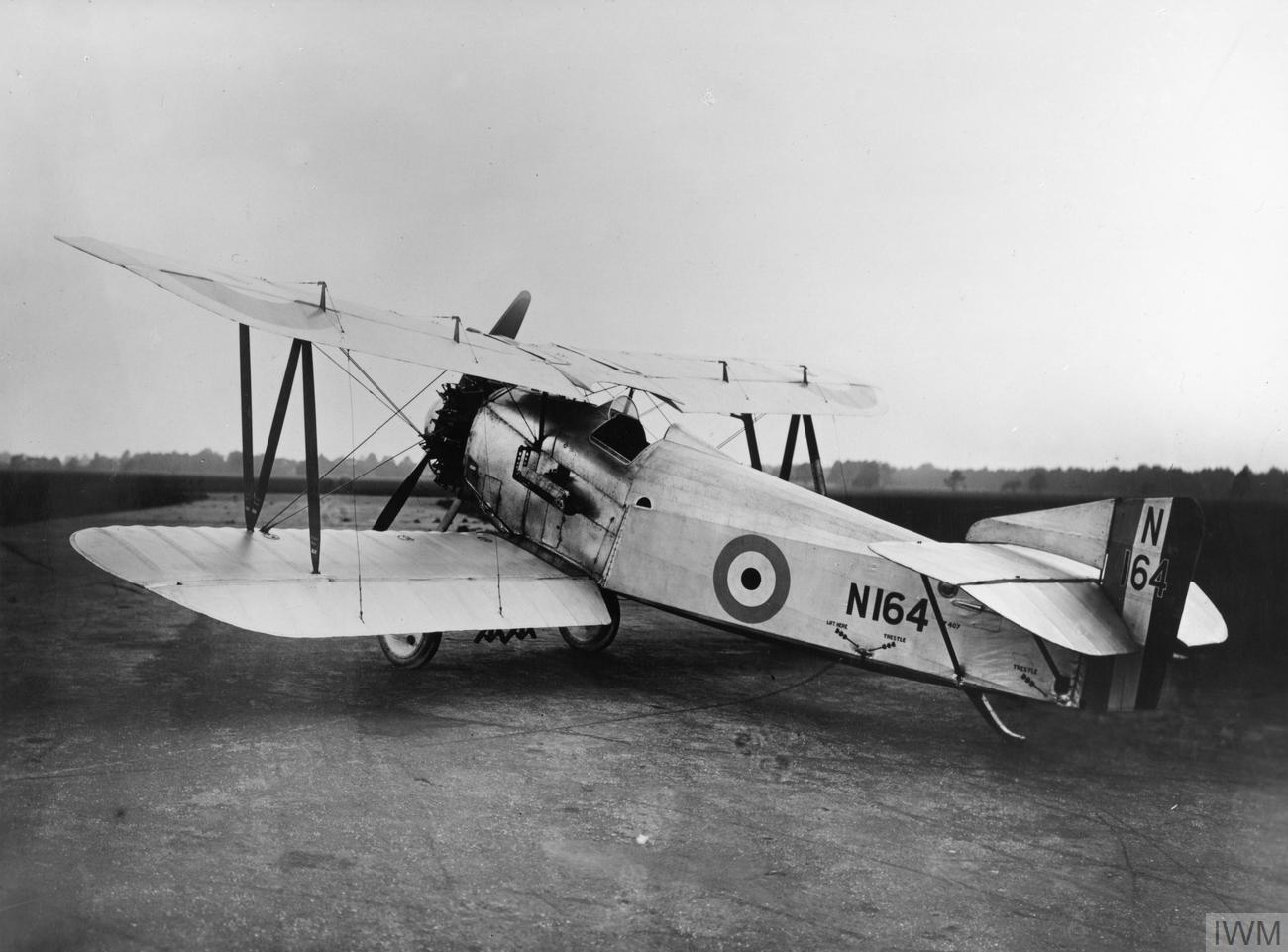 Fairey Flycatcher, an inter-war British biplane